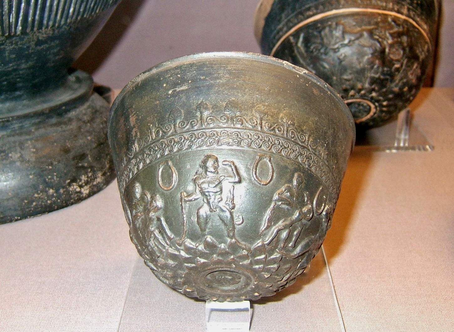 Relief-moulded black Megarian bowl, c. 225-175 BC. Diam. 13.3 cm.